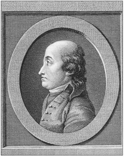 Guillaume-Charles Faipoult (1752-1817) by Robert de Launay after a drawing by Anne Germain